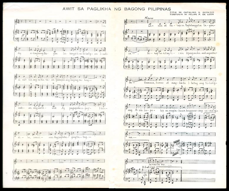 Sheet music of the patriotic song used during the Japanese Occupation of the Philippines.